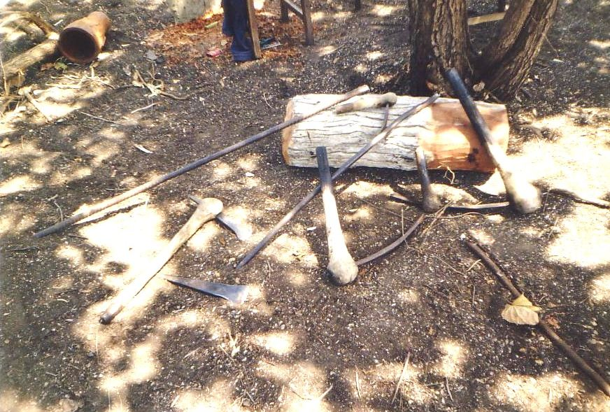 Wood carving tools from Senegal